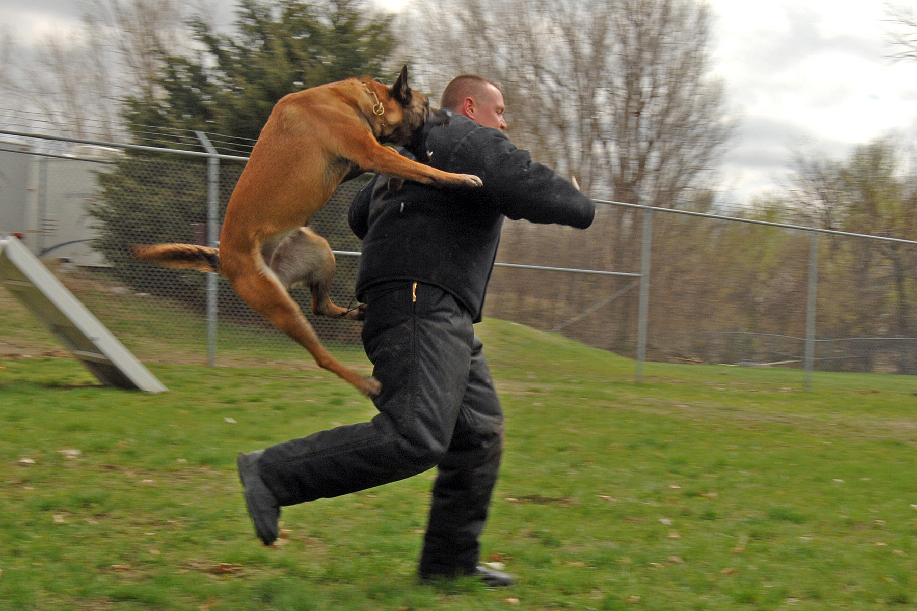 OFFUTT AIR FORCE BASE, Neb. -- Bellevue Officer Jim Bartley, gets pounced on by Leda, a La Vista Police Dog, during a routine joint training with Offutt handlers and military working dogs on April 10.